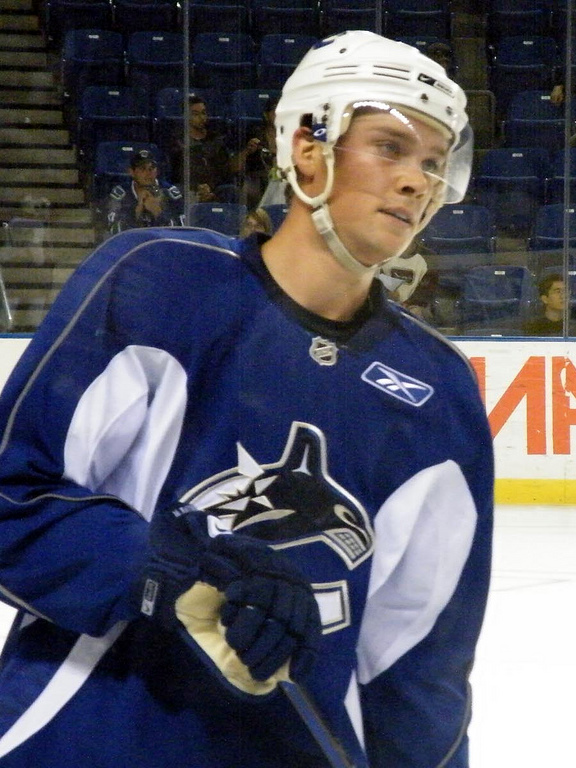 Vancouver Canucks forward Mason Raymond during training camp in 2009.